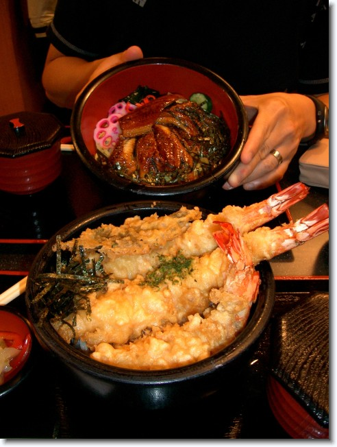 Giant Prawn Tempura and Una don. Omicho Market, between katamachi District and Kanazawa Station. Closest bus stop is Musashi-ga-tsuji. Well worth the trek!